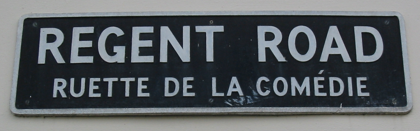 Regent Road